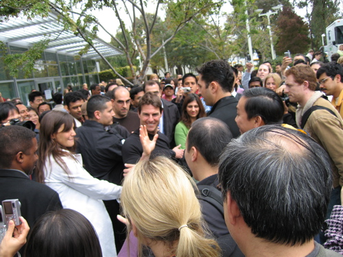 Tom Cruise and Katie Holmes